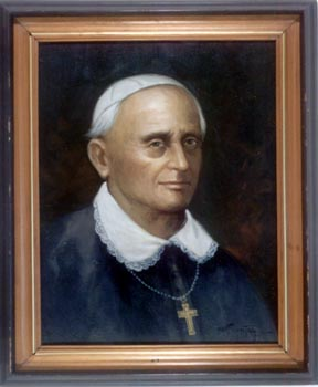 Fr Pedro Payo was the 24th Archbishop of Manila who took charge in 1876 till his death in 1889. He adorned and improved the new Manila Cathedral, which was completed during his term in 1879. The previous was destroyed by the earthquake of 1863.